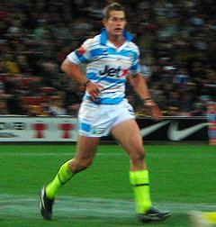 Ashley Harrison